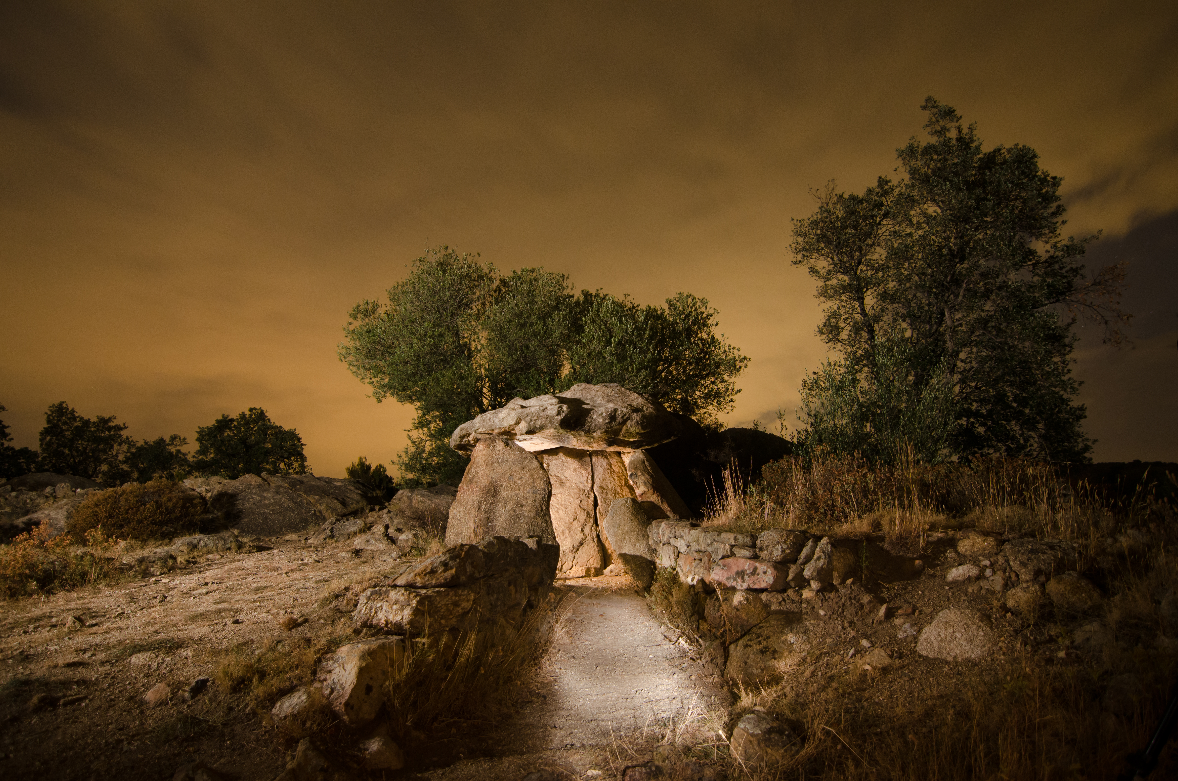 Around 3500-3200 bC.